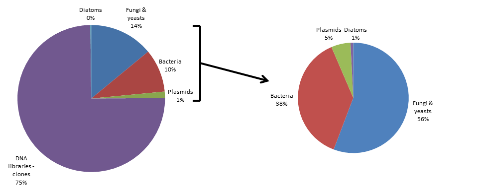 Micribiological patrimonium of the BCCM consortium